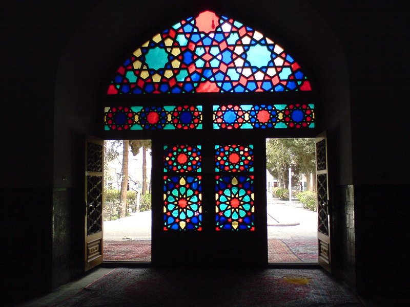 The Imam Khomeini Mosque and School